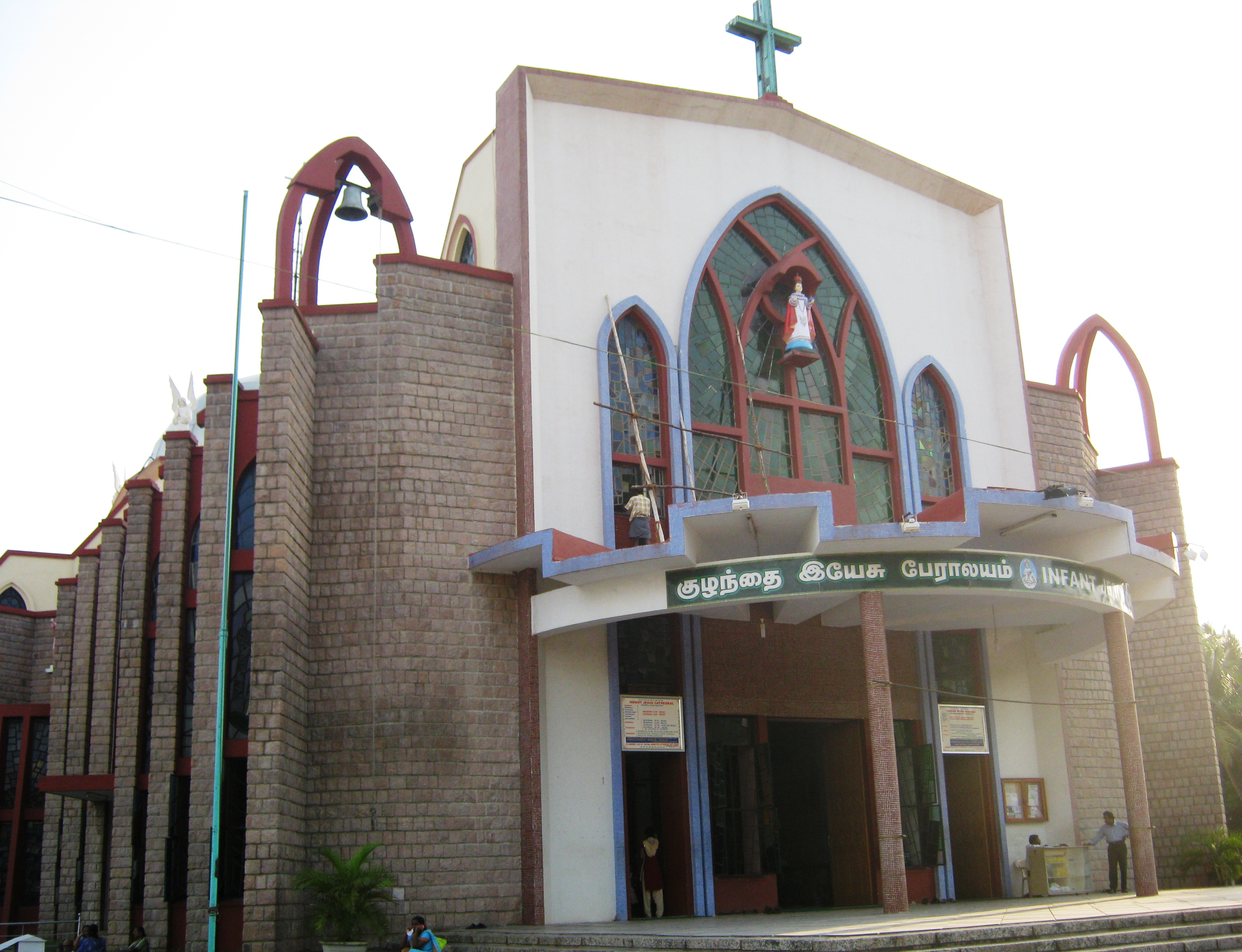 The Infant Jesus Cathedral in Salem, India